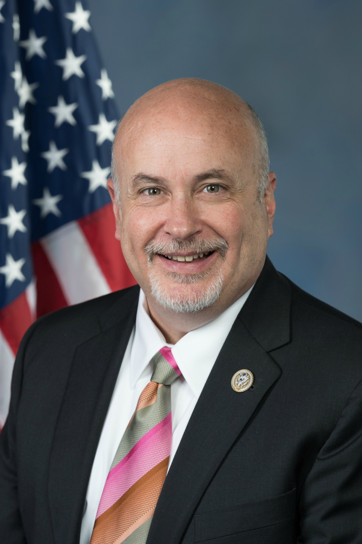 Mark Pocan official photo